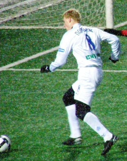 Pavel Pogrebniak in action for FC Zenit St.Petersburg